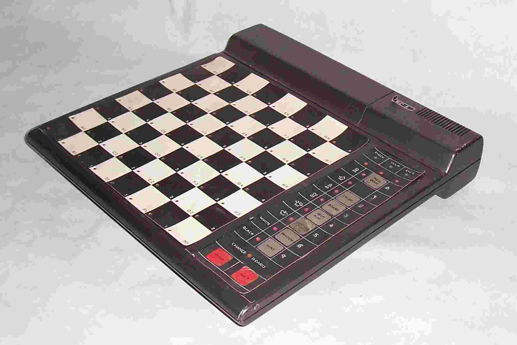 design sample for an East German chess computer in a plastic box